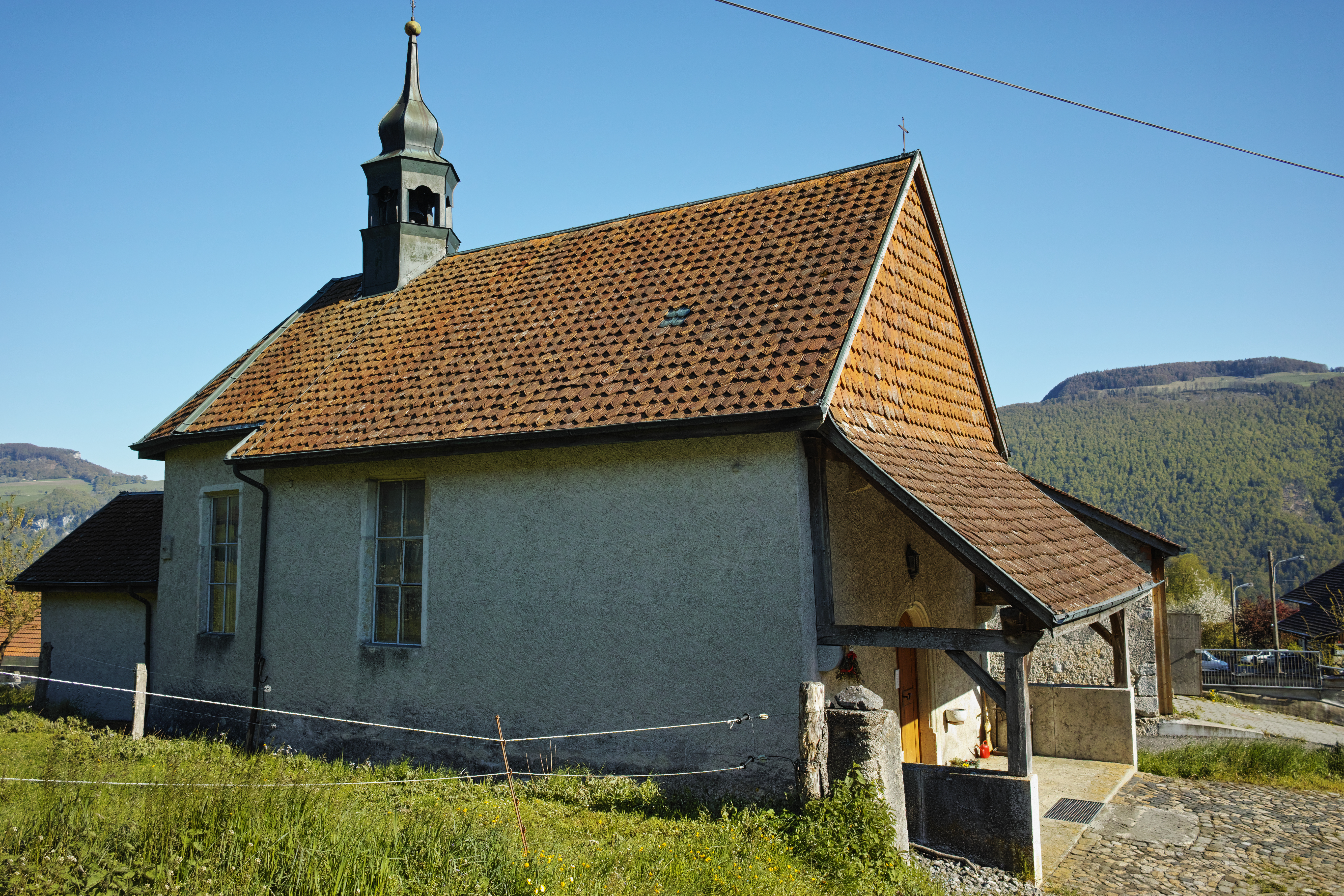 Hamlet of Höngen in the municipality of Laupersdorf, canton of Solothurn, Switzerland: St. Jakobskapelle (St. James Chapel).